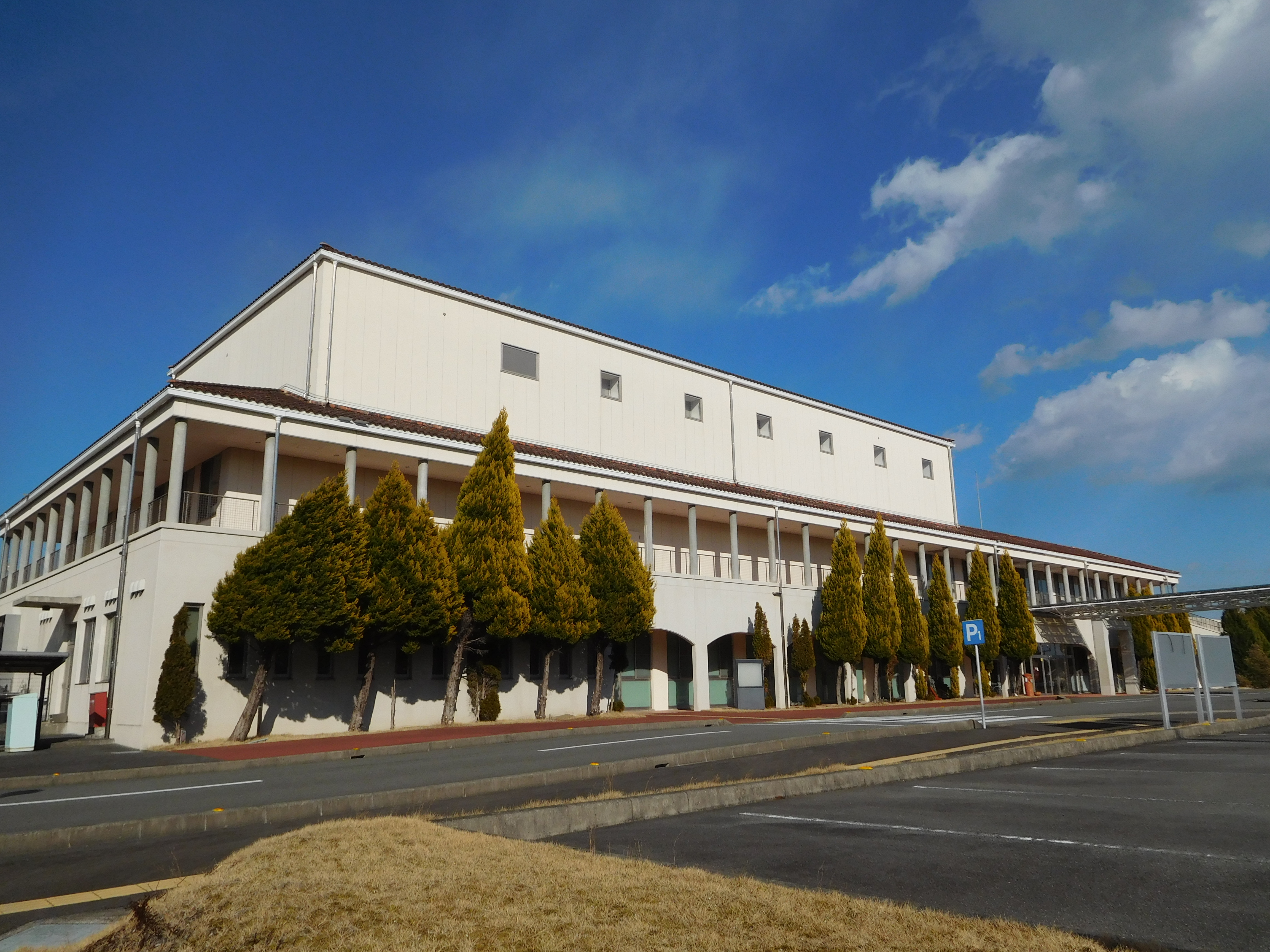 This is Shima City Museum of History and Folklore in Shima, Mie, Japan.